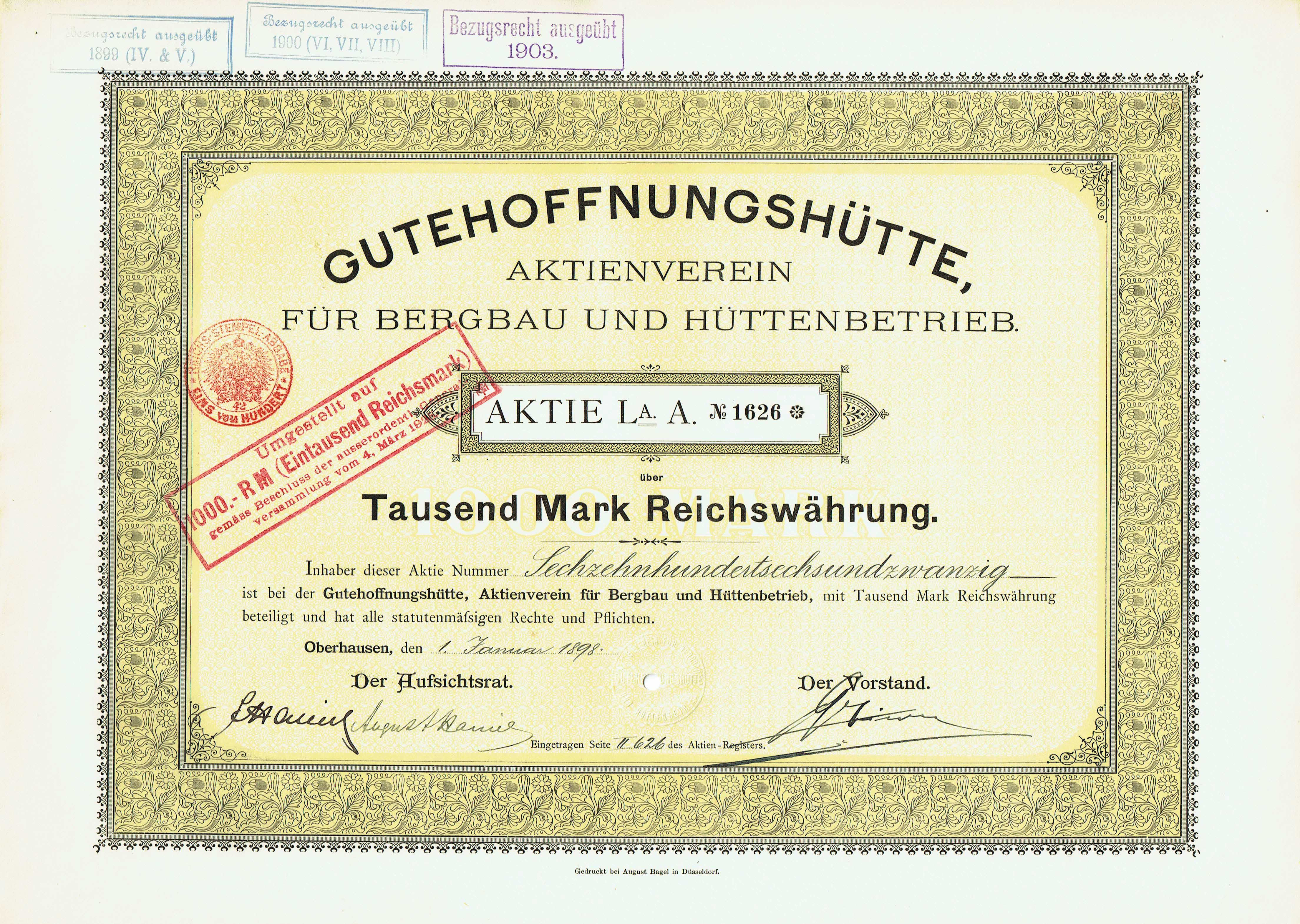 Share of the Gutehoffnungshütte - Aktienverein für Bergbau und Hüttenbetrieb, issued 1. January 1898